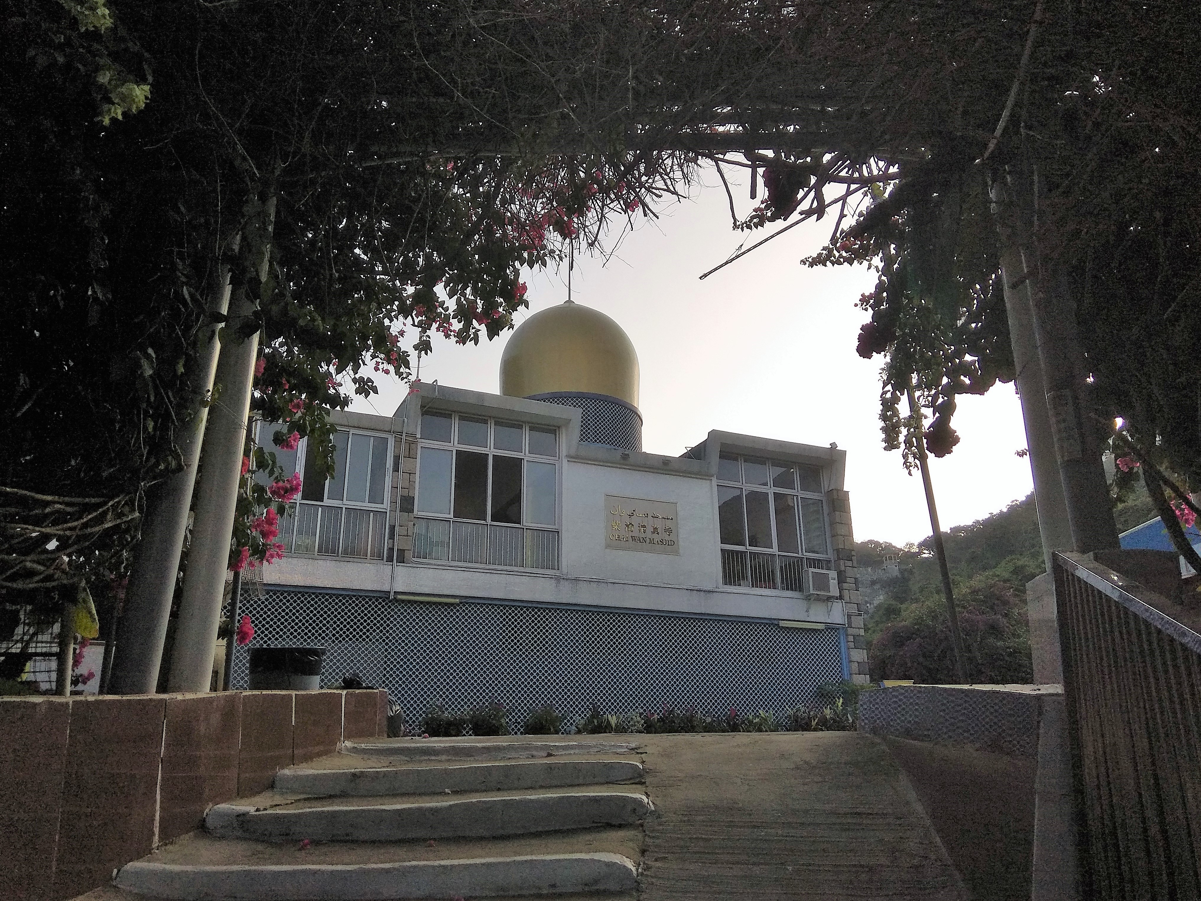 Chai Wan Mosque